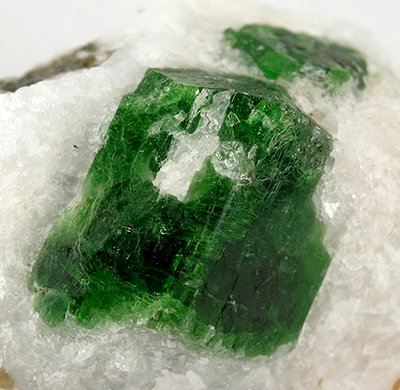 Pargasite Locality: Haramosh Mts., Gilgit District, Northern Areas, Pakistan (Locality at ) Size: small cabinet, 6.2 x 5.7 x 4.6 cm Pargasite One of the more spectacular examples I have yet seen of the species for both size and color intensity, This piece features a sharp crystal, to just under an inch, of the most intense green color imaginable.